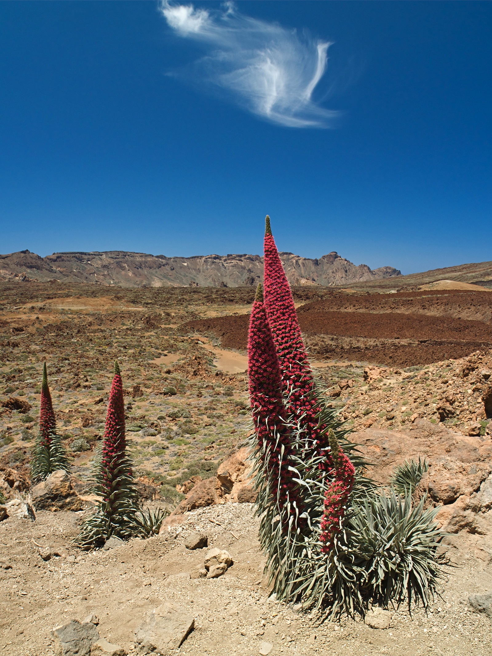 Red Mount Teide bugloss (Echium wildpretii), Tenerife, Spain